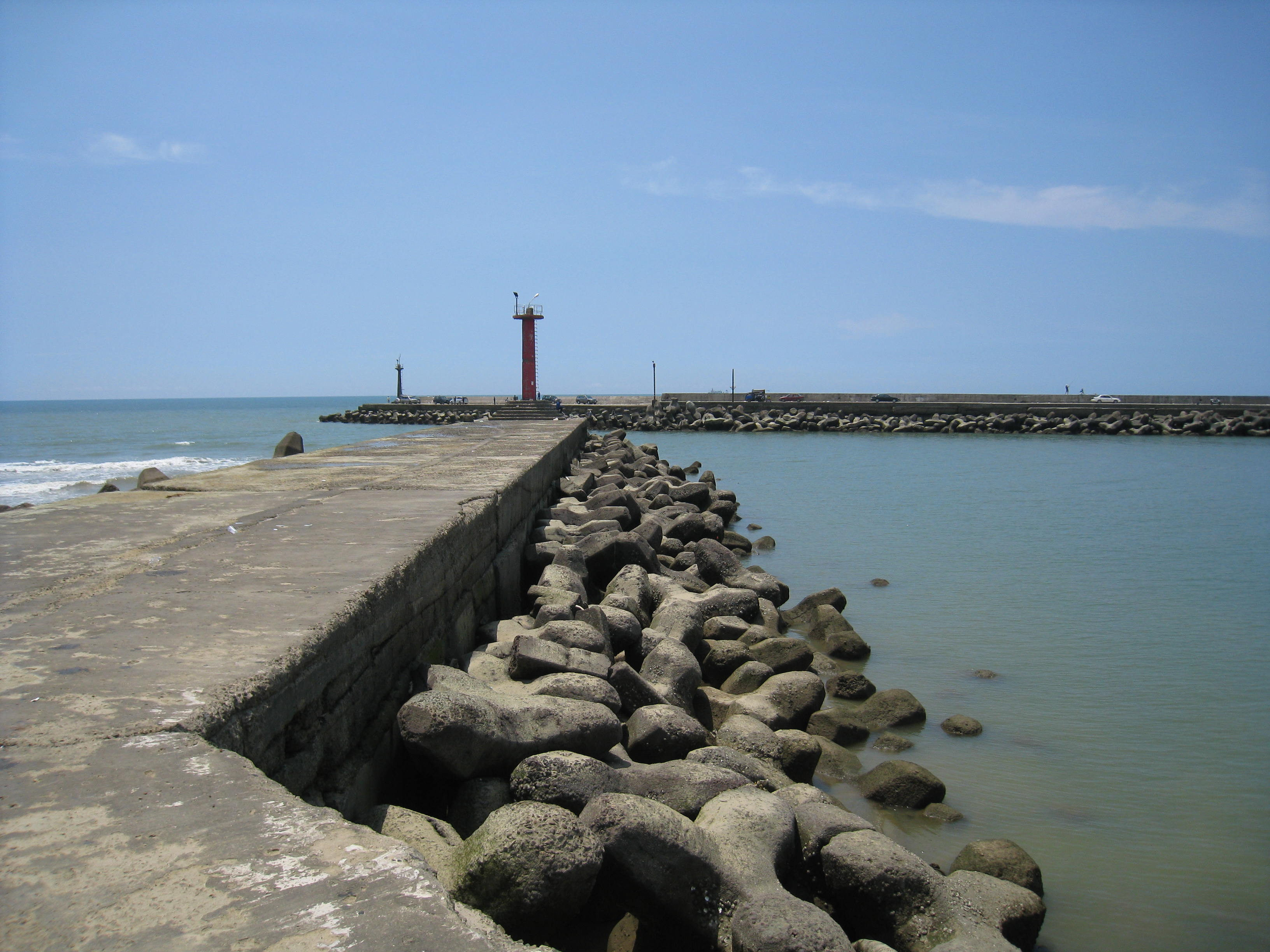 Taiwan Yong-an Fishery Harbor Ⅲ